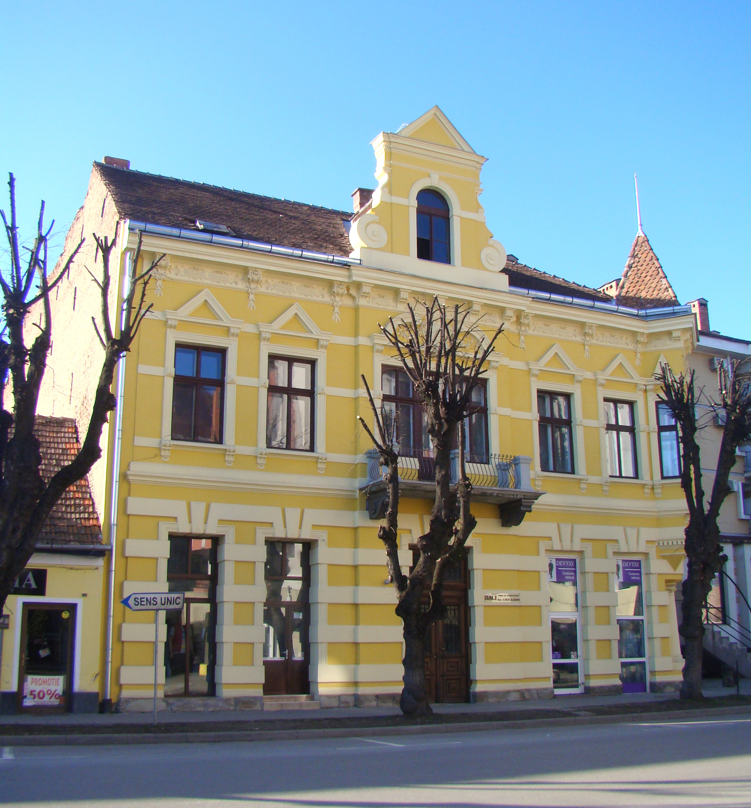 House, historic monument,in Bistriţa, Unirii Square, number 7